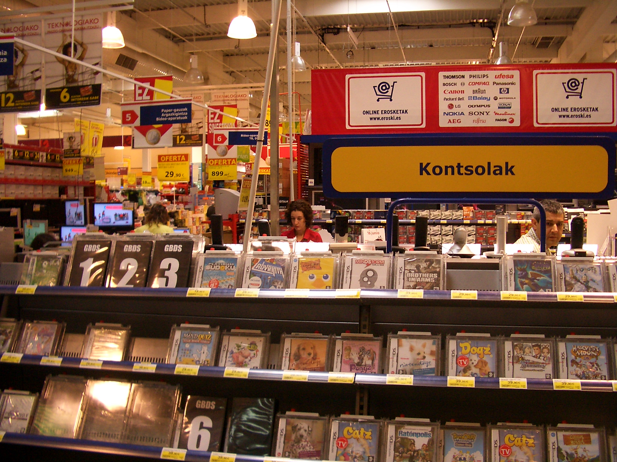 Inside an Eroski hypermarket on the northern outskirts of Arrasate/Mondragon, with a lot of Basque signage inside